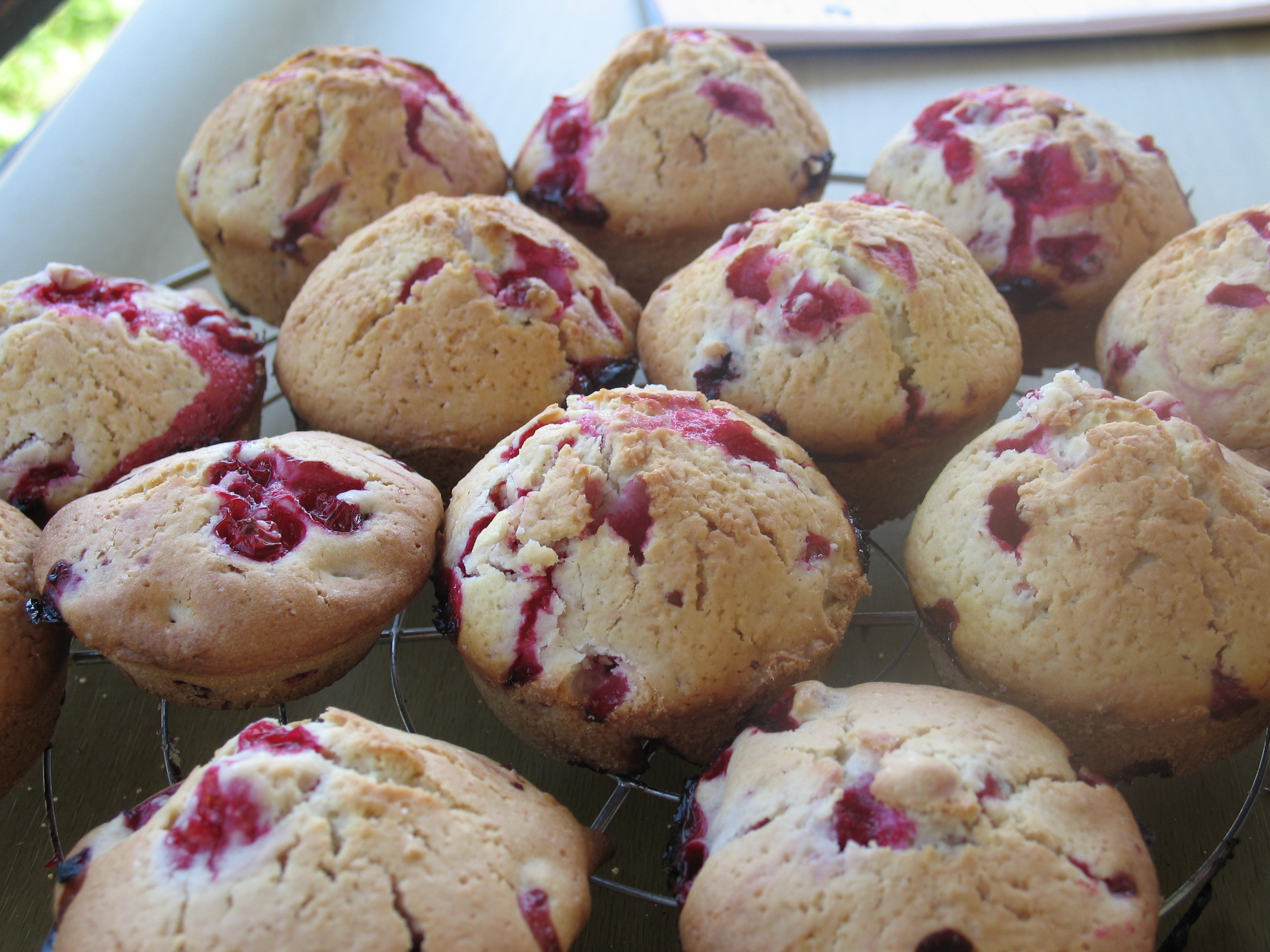 Gooseberries muffins